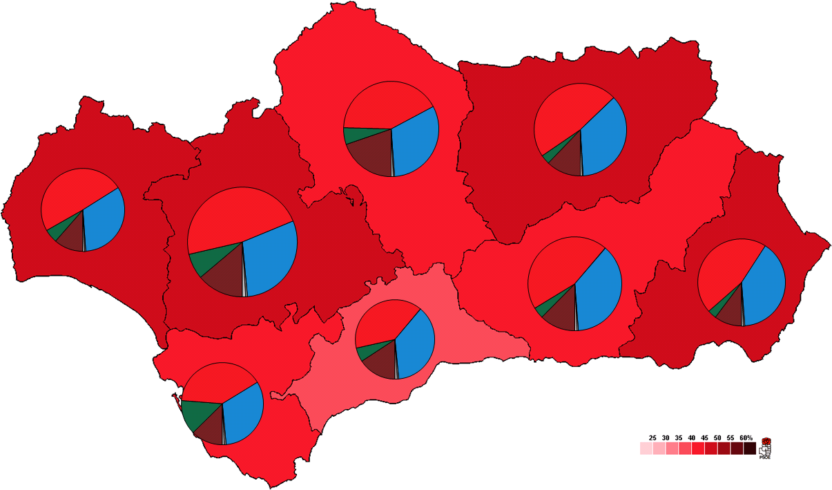 Provincial results for the Andalusian parliamentary election, 1996.